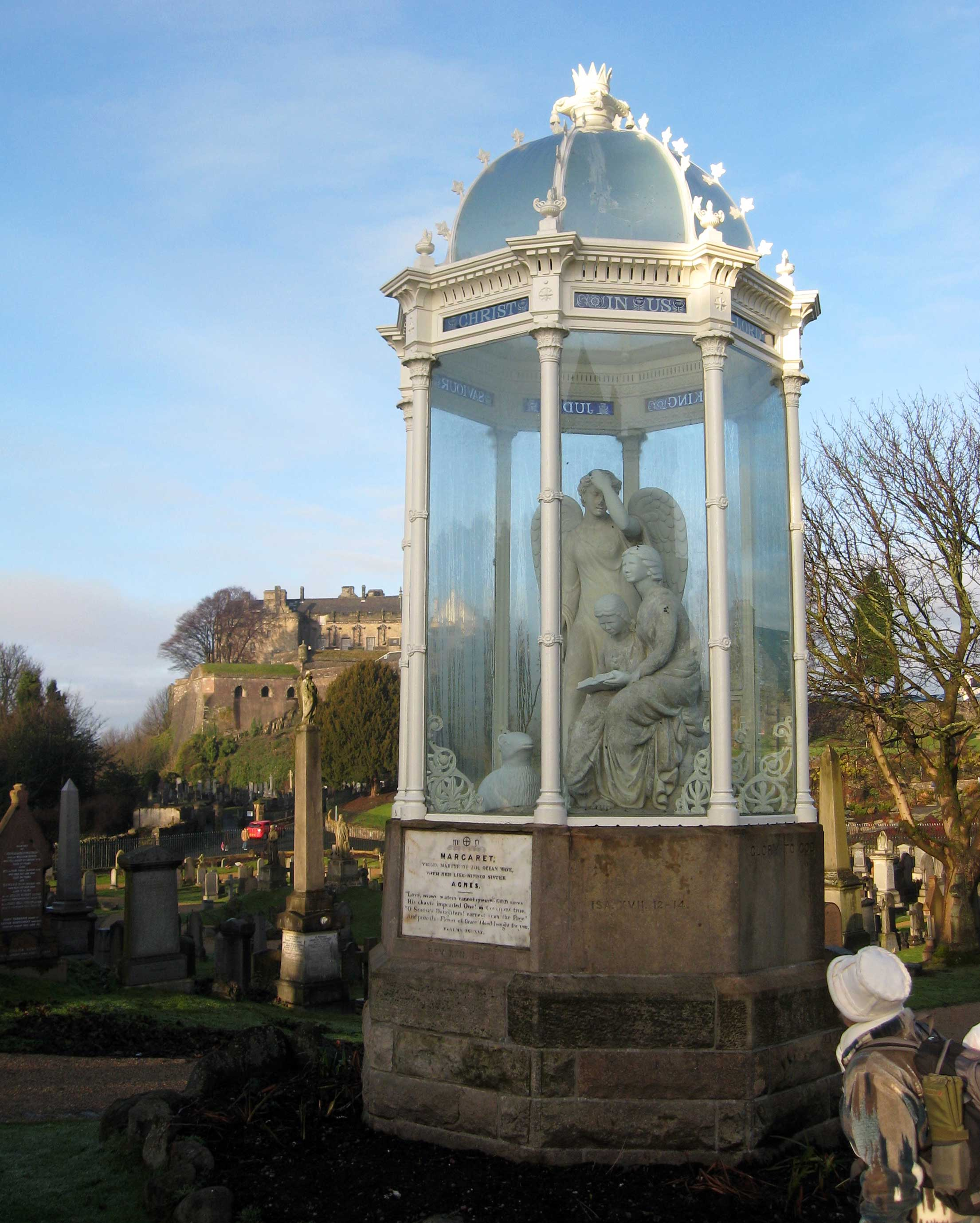 Wigtown Martyrs Monument commemorating Margaret Wilson (Scottish martyr) in the Old Town Cemetery, Stirling.